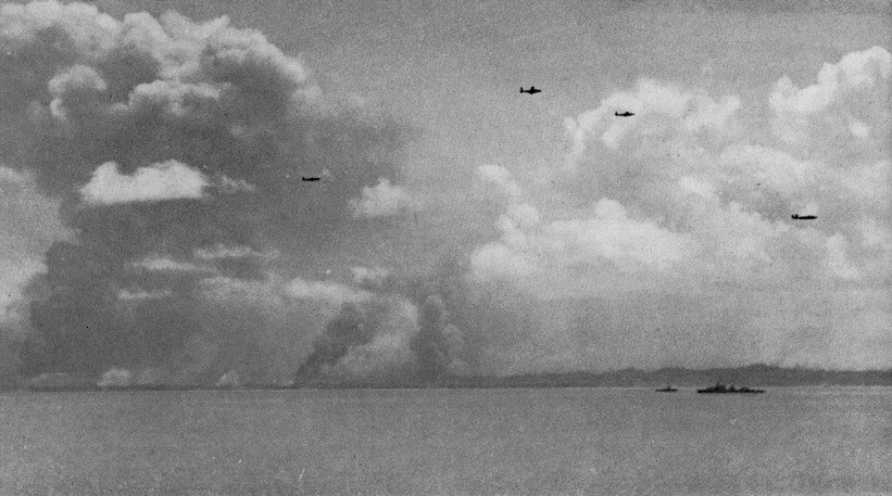 Royal Australian Air Force North American B-25 Mitchell bombers attack the landing beaches at Balikpapan, Borneo.